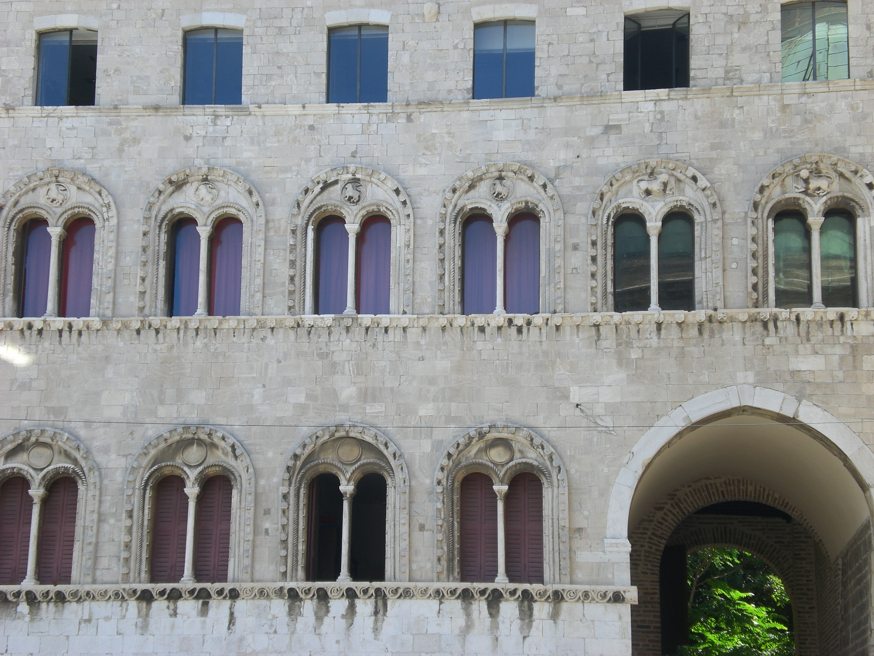 Ancona, Senate Palace, XIII Century